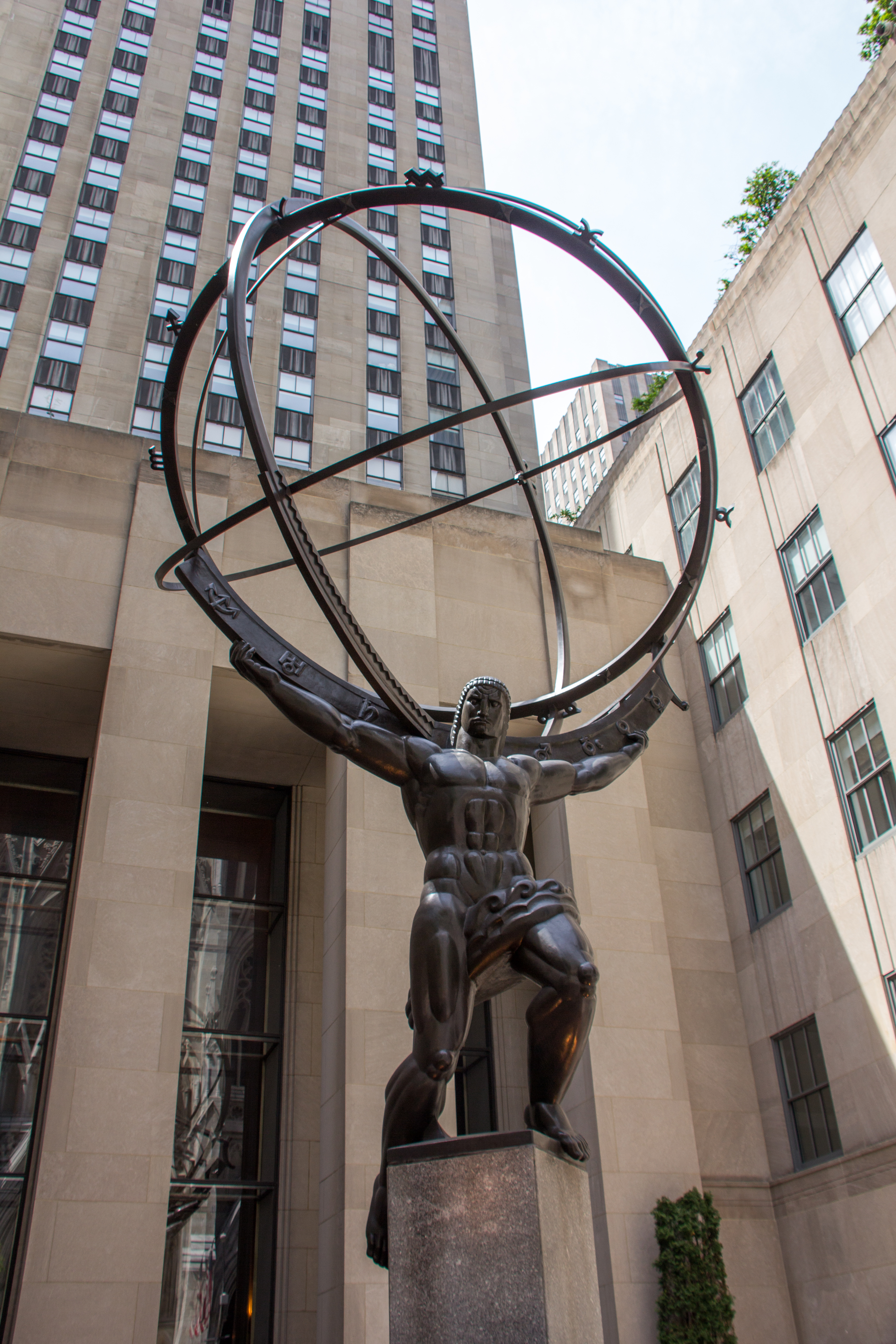 Manhatten, New York City